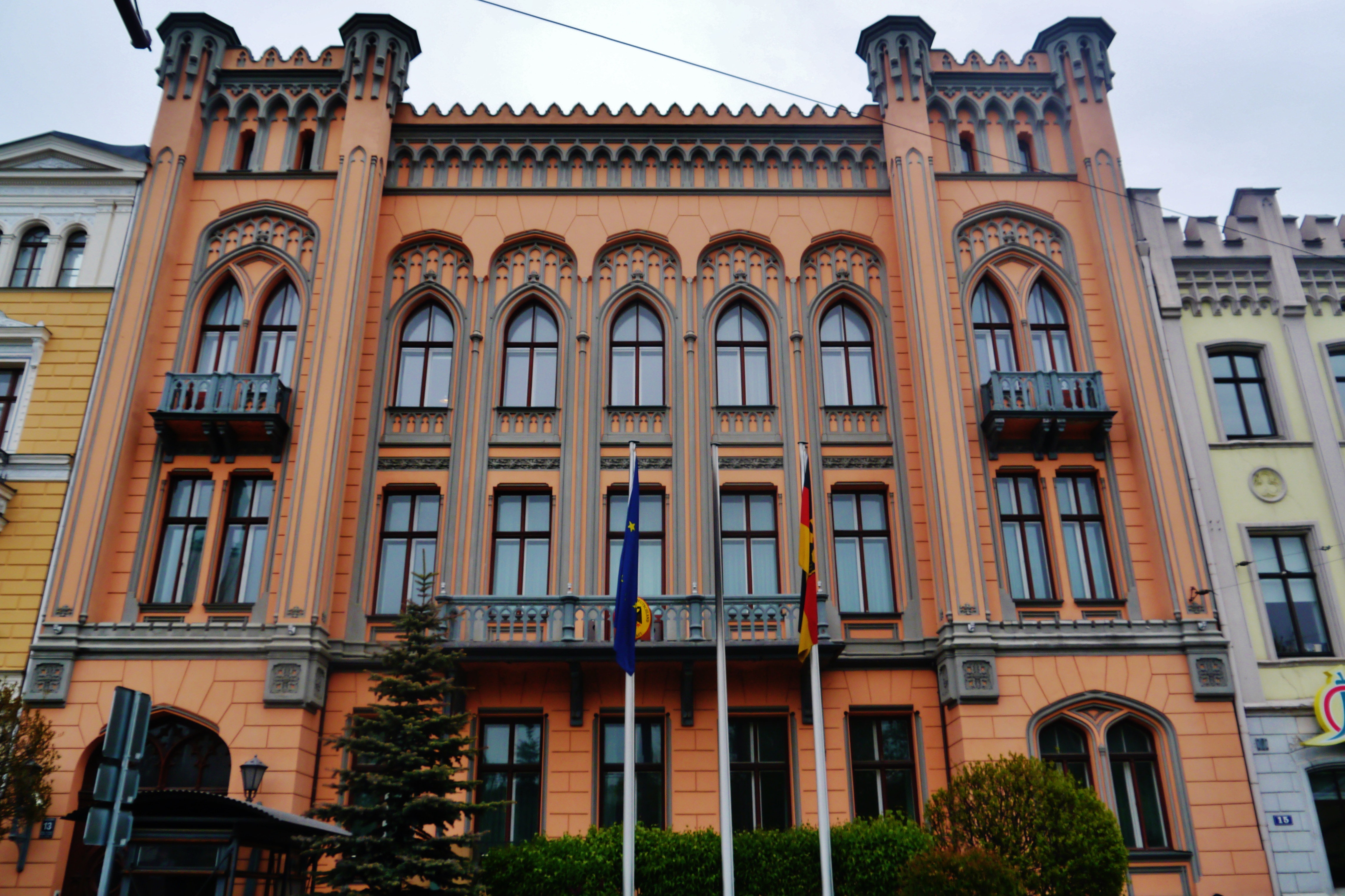 German Embassy as Example of Historism, Riga, Latvia